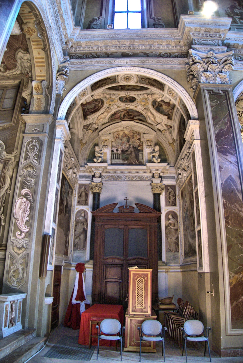 Chapel of Franciscan Saints